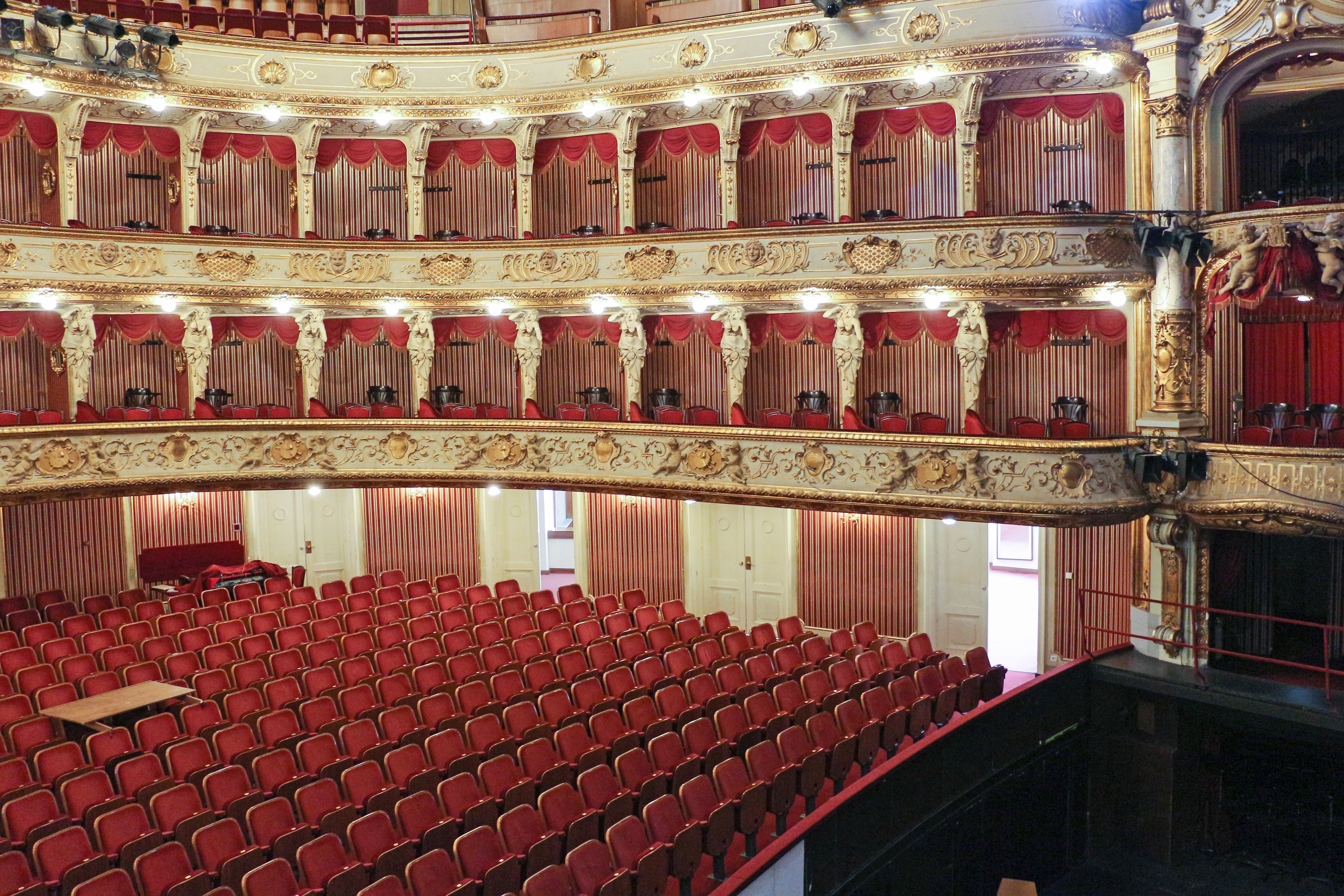 Interior of Croatian National Theater, Zagreb, Croatia